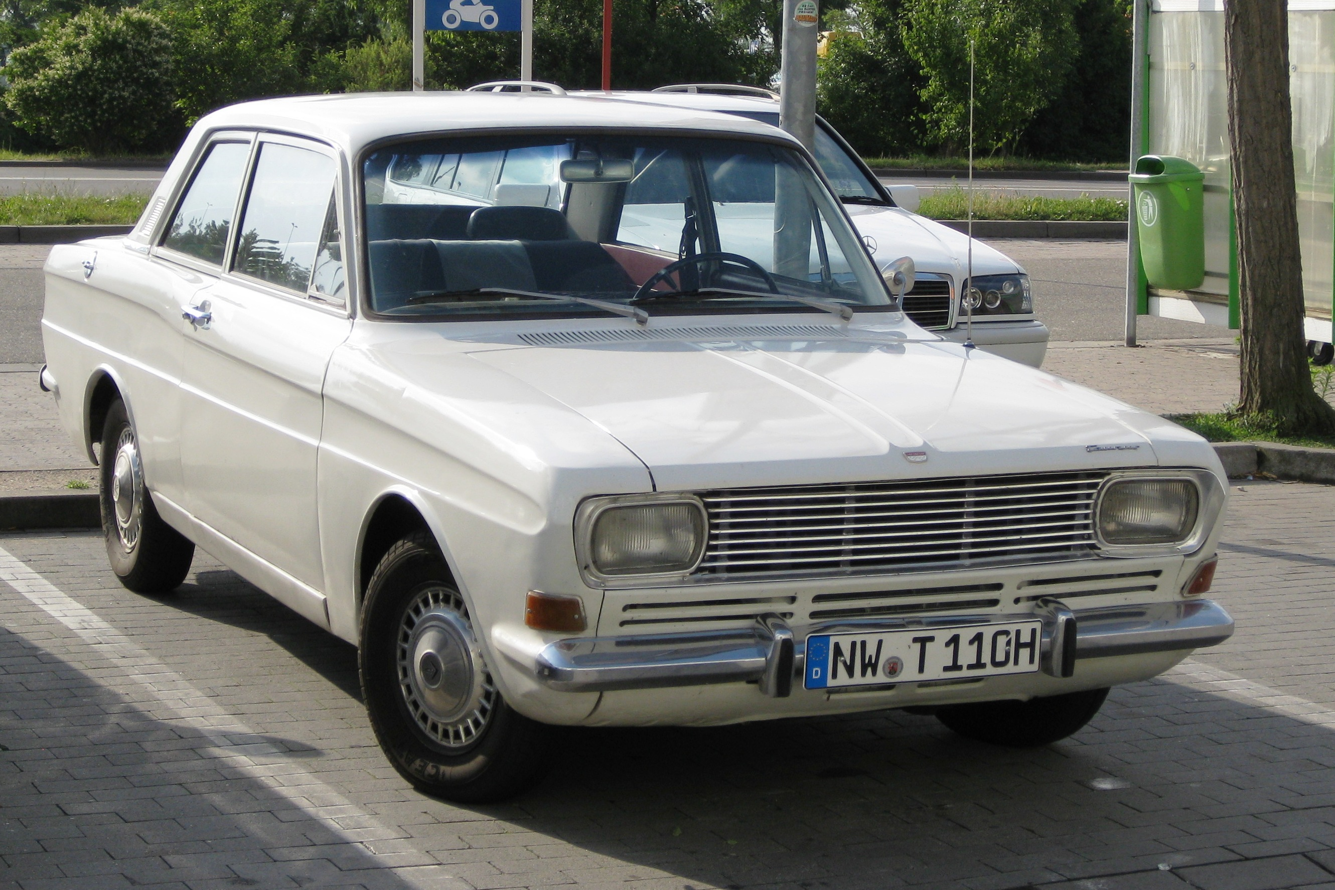 Ford Taunus 2 door Berline at Globus Baumarkt on edge of Neustadt/Weinstrasse